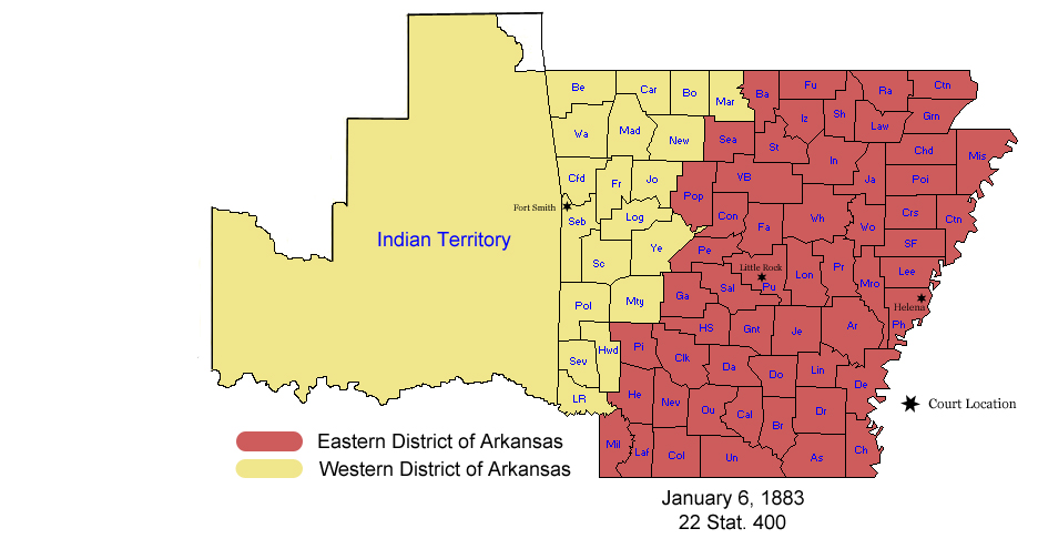 Arkansas districts - 1883